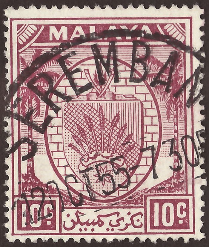 Stamp of Negeri Sembilan (British Malaya); 1949; definitive stamp of the so-called "Coconut issue"; stamp drawing with the coat of arms of Negeri Sembilan before a brick wall in oval flanked by two coconut palms; stamp postmarked in Seremban, 1955 Note: The nine rice (padi) stalks in the coat of arms represent the nine Minangkabau districts of Negri Sembilan. The Minangkabau people of Sumatra was the first settled permanently in Negri Sembilan in the 14th century. This immigrant Minangkabau have planted as first people in Malaysia rice in narrow side valleys with streams. The star with nine points signifies the nine Minangkabau districts too, the staff represents the "Yang di-Pertuan Besar" (royal title of the head of state), and the sword and scabbard represents justice. However, Negri Sembilan is the only royal state in Malaysia in which the ruler is elected (by a council of territorial chiefs) and not determined hereditary. Probably is this the reason, why the state’s coat of arms is shown on the stamp issue instead of a portrait of a single ruler. To the time of the "coconut issue" was the ruler of Negeri Sembilan: "Tuanku Abdul Rahman ibni Almarhum Tuanku Muhammad" (1895–1960) with the title of a "Yang di-Pertuan Besar". Stamp: Michel: No. 49; Yvert et Tellier: No. 47; Scott: No. 46 Color: brownish to reddish purple lilac Watermark: Negeri Sembilan No. 2 (= Malaysia No. 4) (multiple St.Edwards crown over convoluted charcters "CA") Nominal value: 10 C (Cents) Postage validity: from 1 April 1949 until ? Stamp picture size (printed area): 19.0 x 22.5 mm Postmark: Seremban (capital of Negeri Sembilan), 12 October 1955